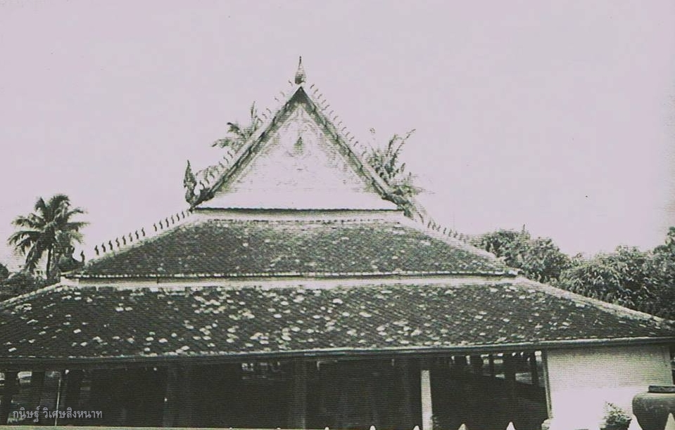 visuttharangsi school in kanchanaburi